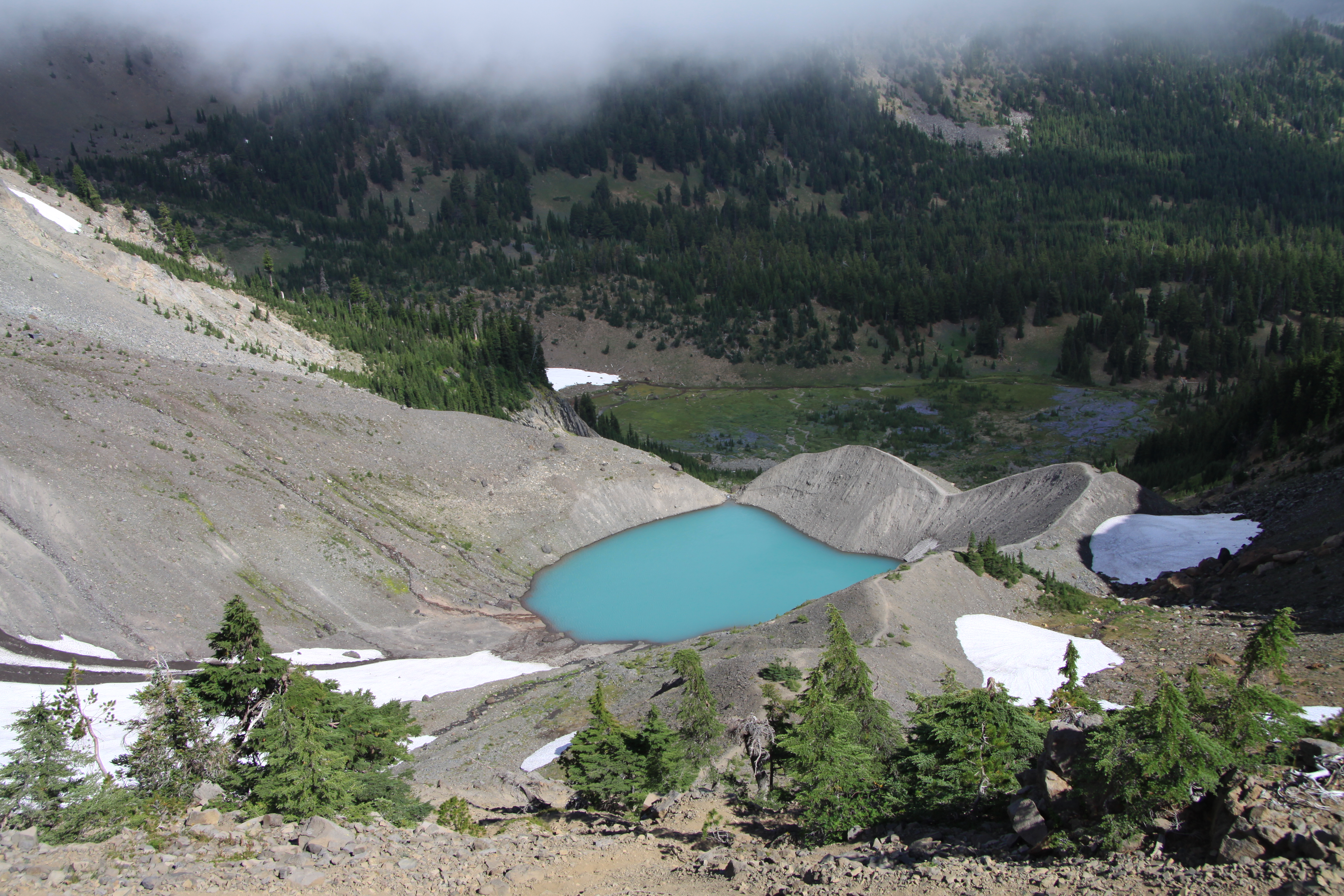 Shield volcano Three Fingered Jack in Cascade Range in Oregon, USA